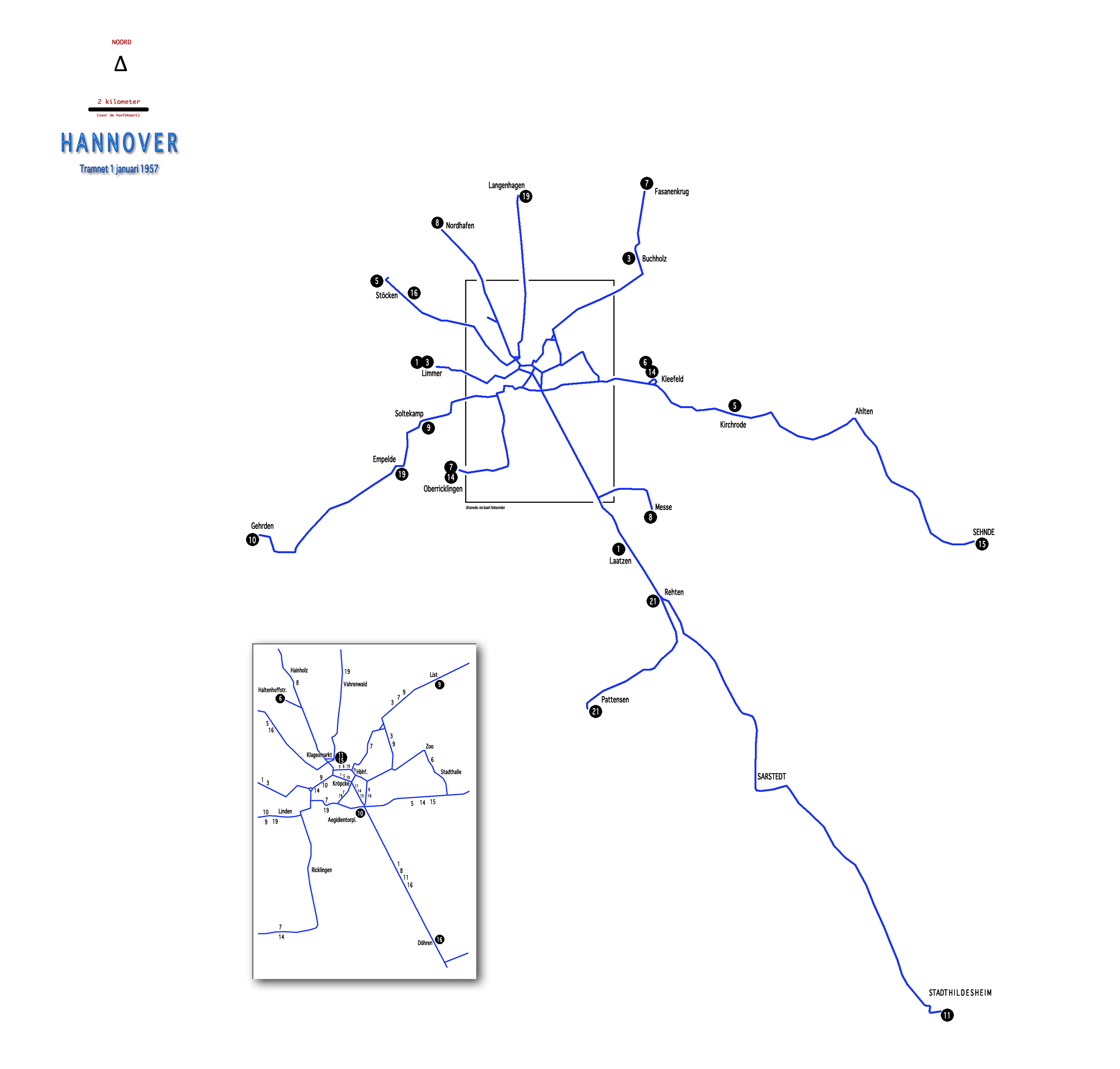 Tramway network Hannover, Germany, 1957